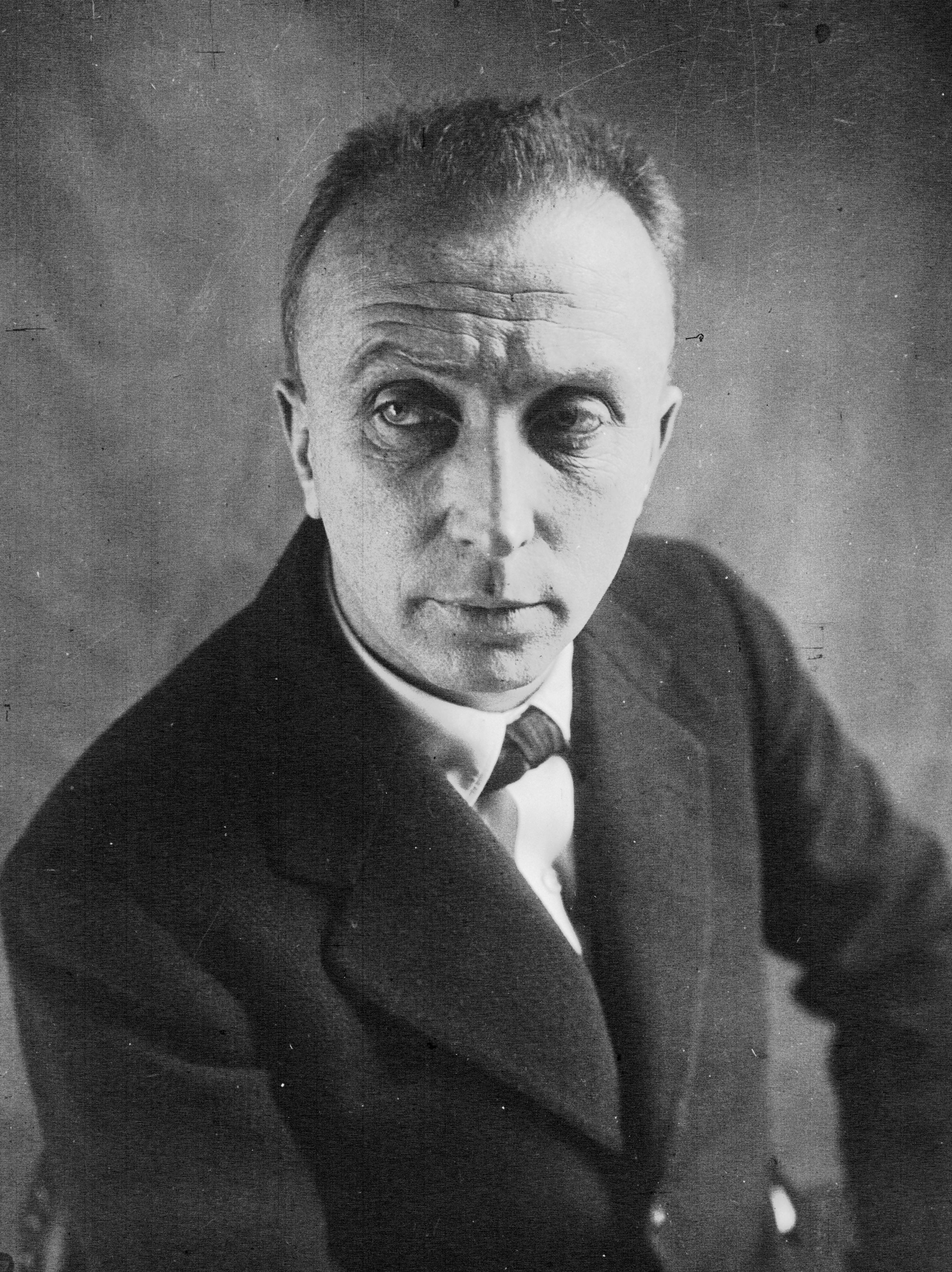 French lawyer and politician Gaston Bergery (1892-1974).